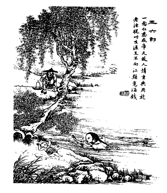 19th-century illustration of a scene from the short story "Wang Liulang" collected in Strange Tales from a Chinese Studio (1740).